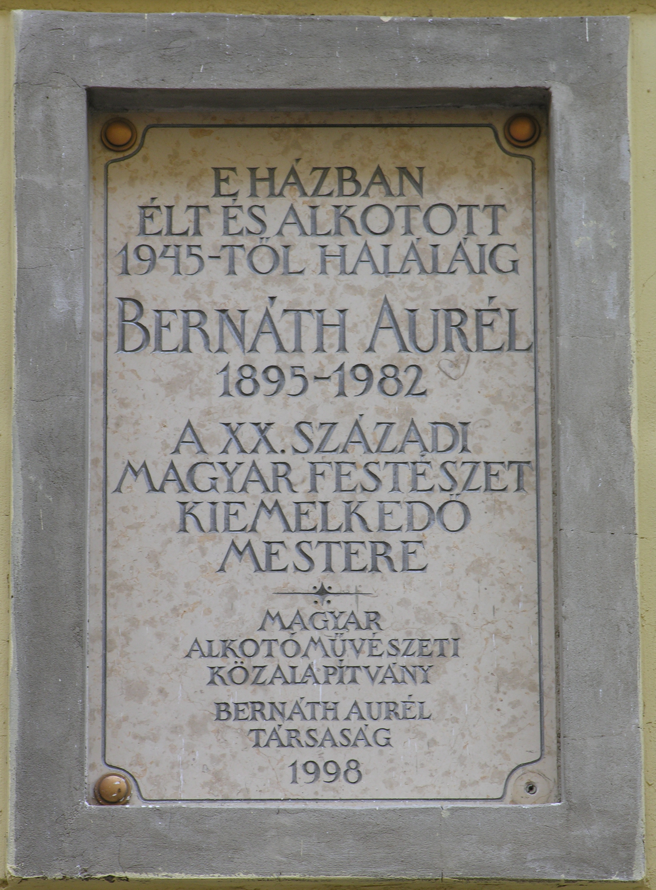 Commemorative plaque of Aurél Bernáth in Budapest District V, Stollár Béla Street No 4